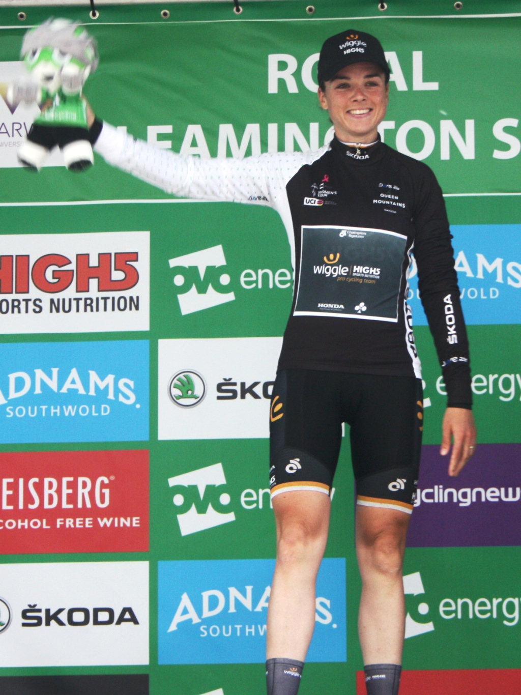 Audrey Cordon from the Wiggle High5 team wearing the Skoda Queen of the Mountains jersey after stage 3 of the 2017 Women's Tour.